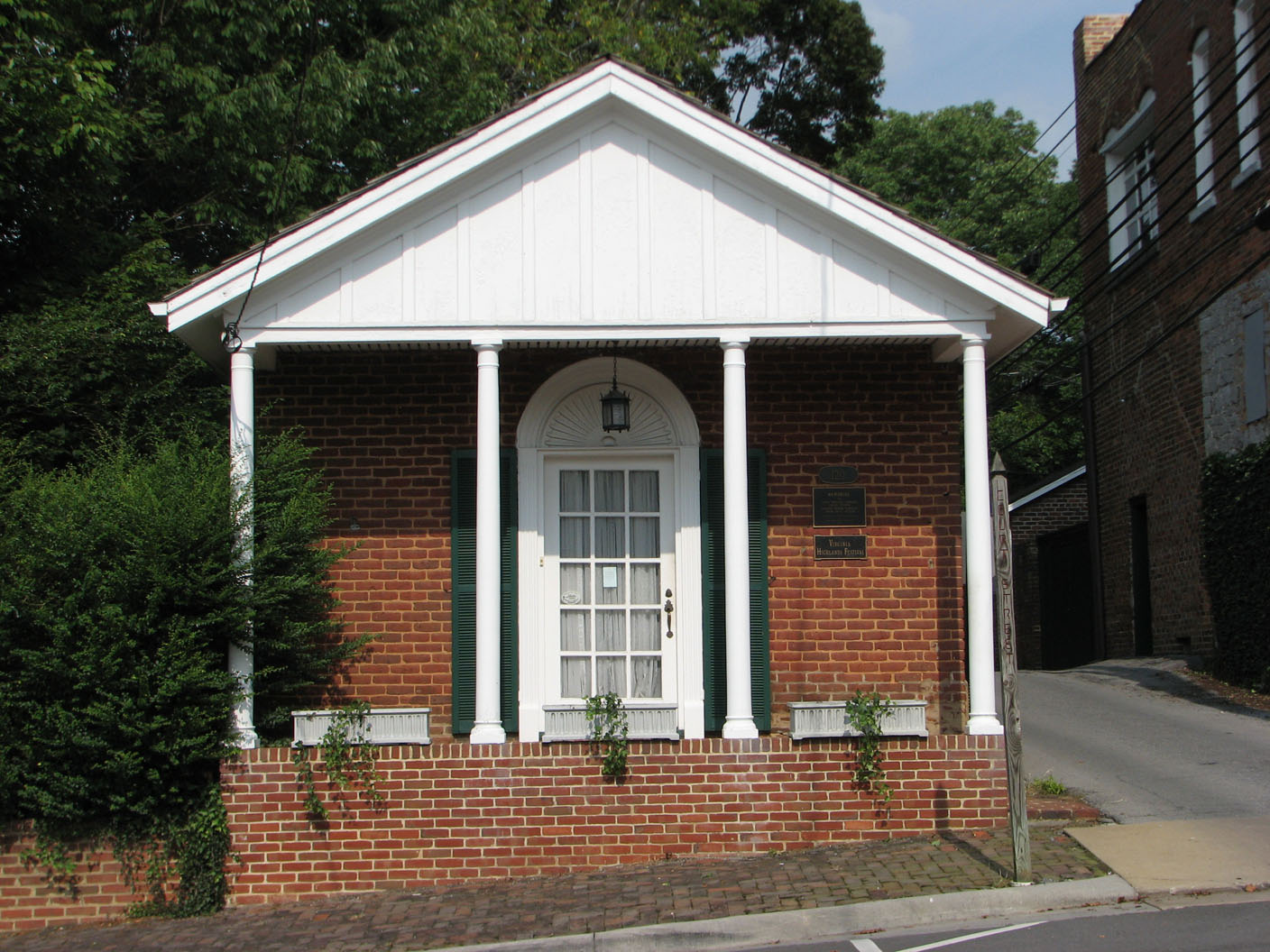 The Lewis Preston Summers' Law Office, in Abingdon, Virginia. The office is currently in the possession of the Washington County Historical Society of Virginia.中文（中国大陆）: 约翰斯顿和特里格律师事务所（图），位于阿宾登市中心的法院街，如今属弗吉尼亚州华盛顿县历史学会所有。